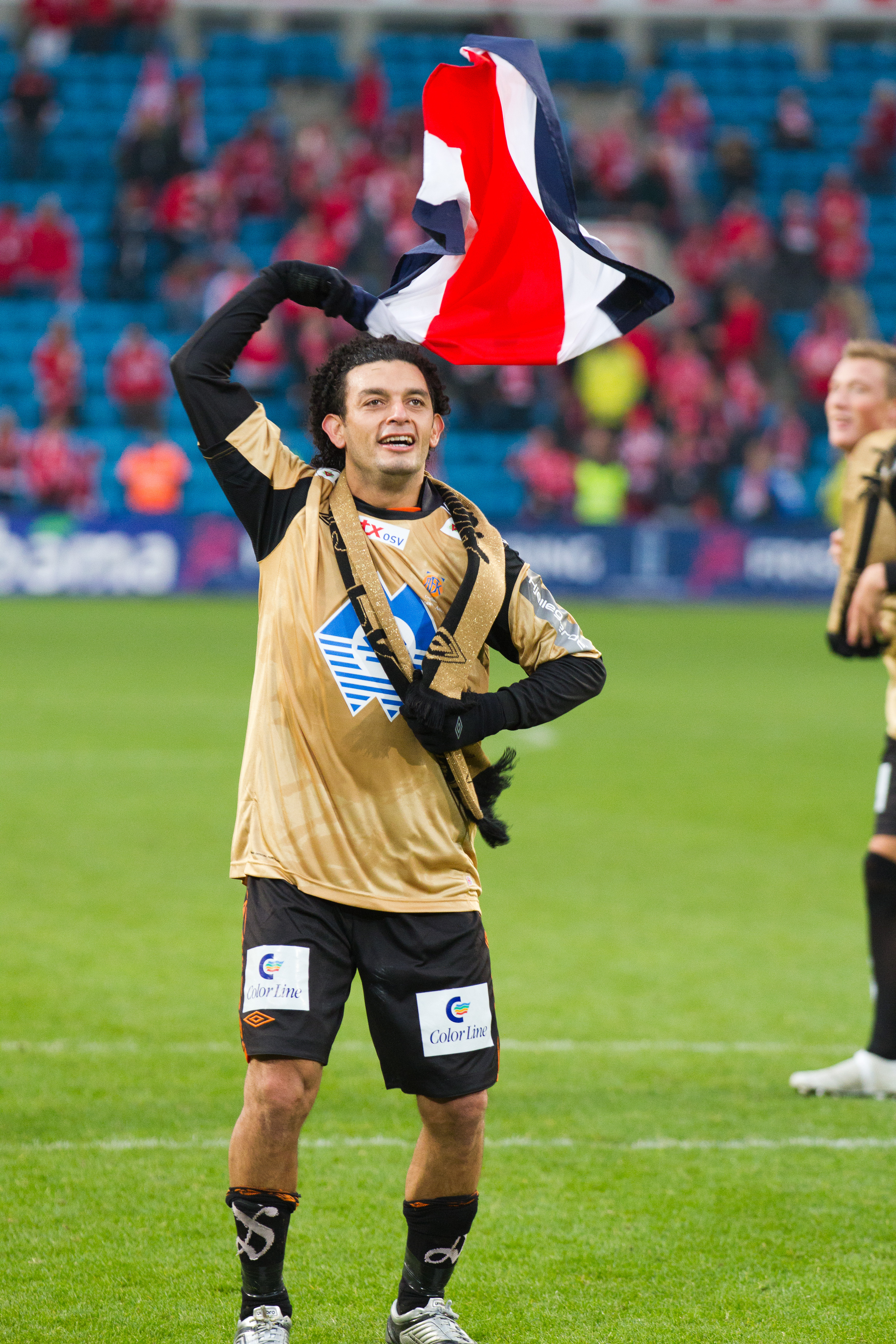 Michael Barrantes celebrating the 2011 Norwegian Cup againts Brann.